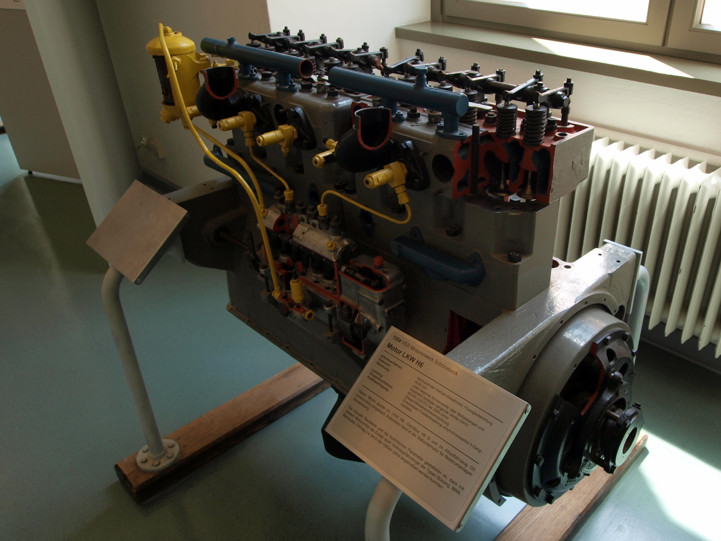 Photo taken without a tripod (was not permitted!) 1954 VEB LKW H6 engine.